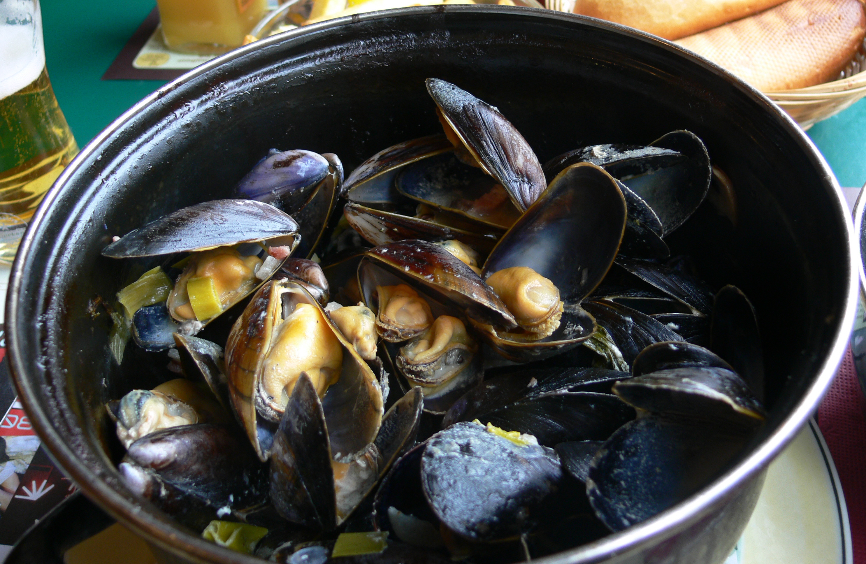 Mytilus edulis (Moules) as served in a French restaurant